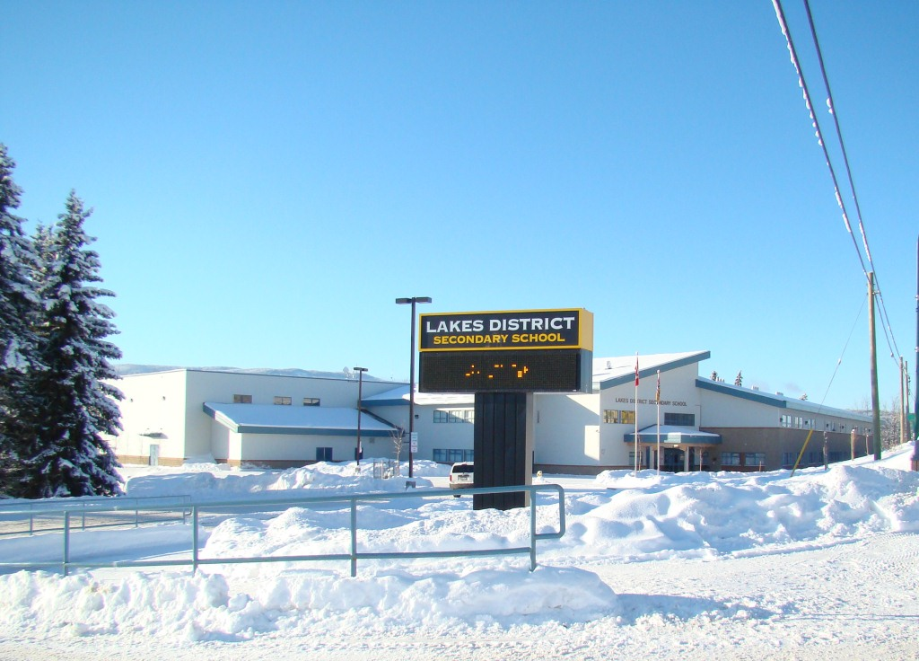 LDSS in Burns Lake, BC Winter 2009